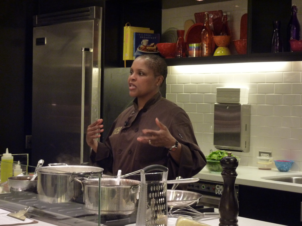 Tanya Holland speaks to the crowd at the 40th Anniversary All-Clad event at Bloomingdales San Francisco.